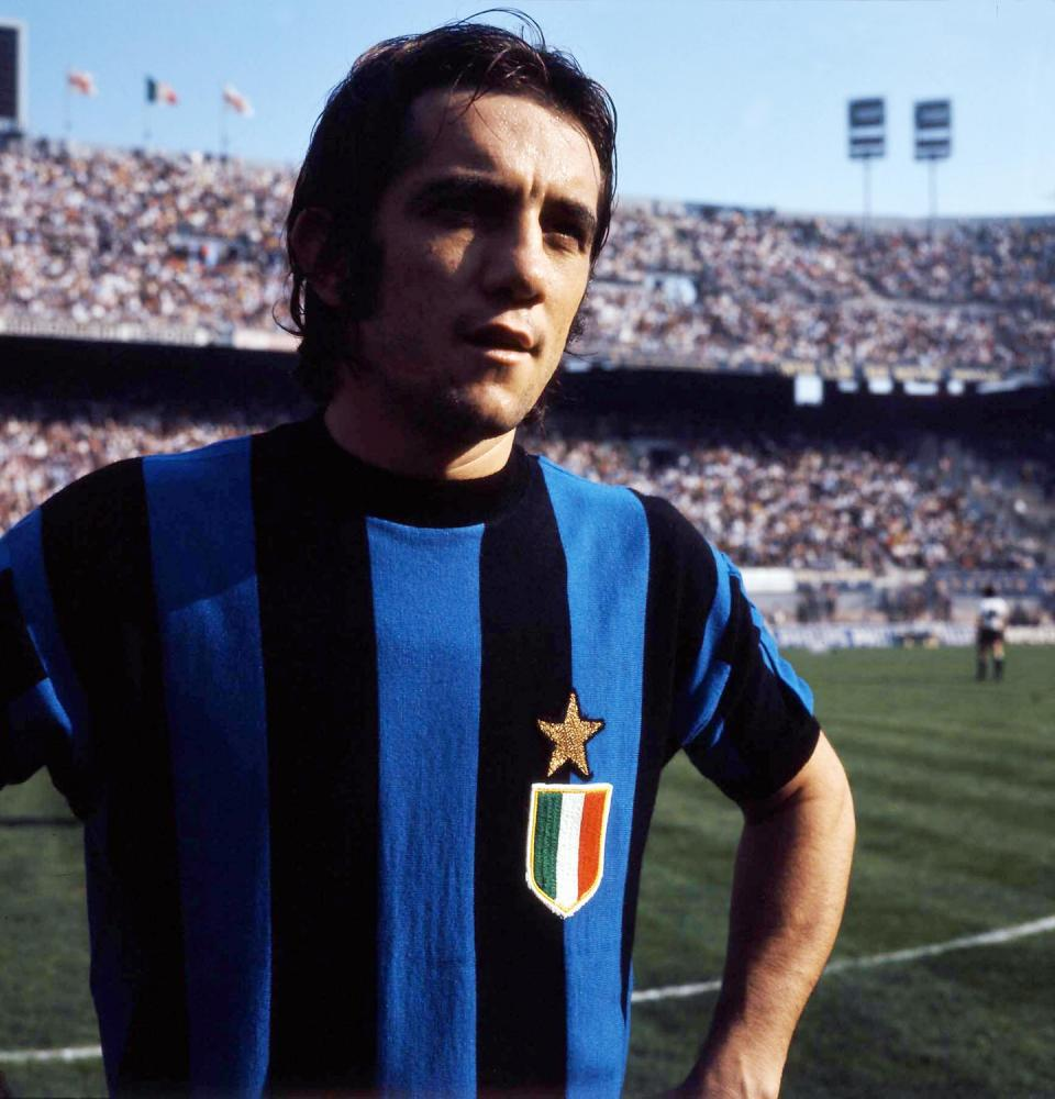 Italian footballer Roberto Boninsegna with Inter Milan in the 1971–72 season, inside San Siro in Milan.